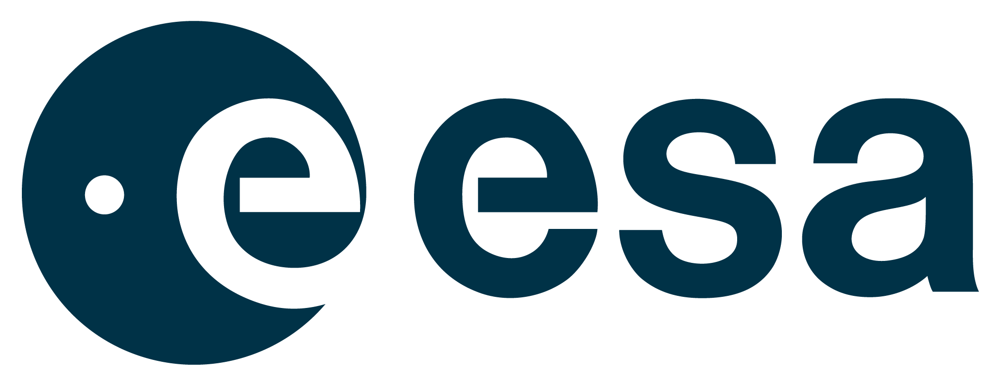 Logotype of the European Space Agency (ESA)